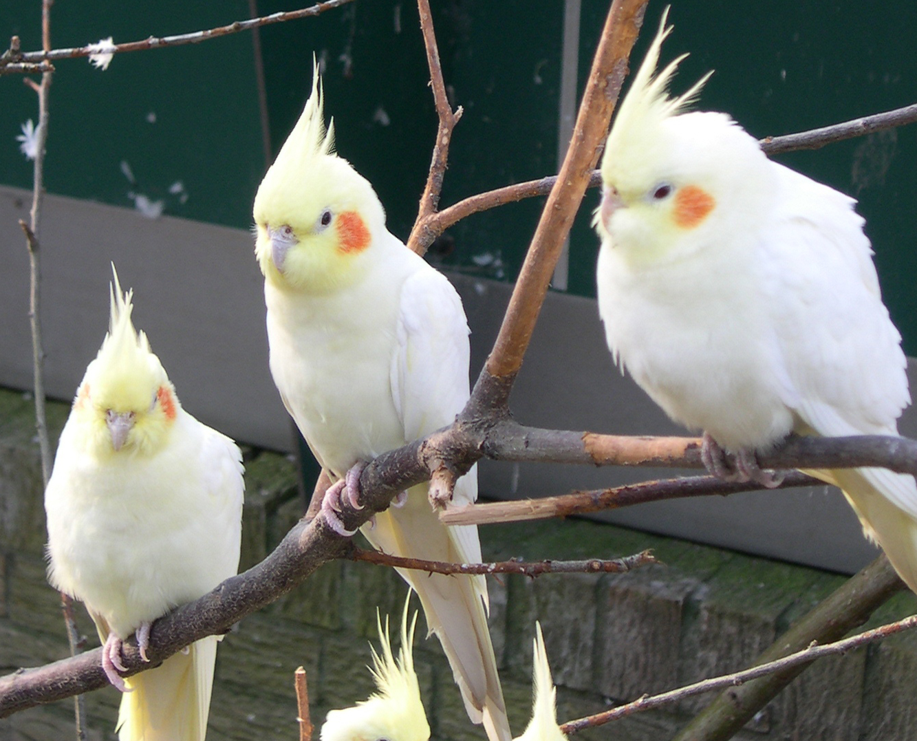 Three Cockatiels on a row in Avifauna, The Netherlands, on November 8th 2005 Picture taken by Magalhães